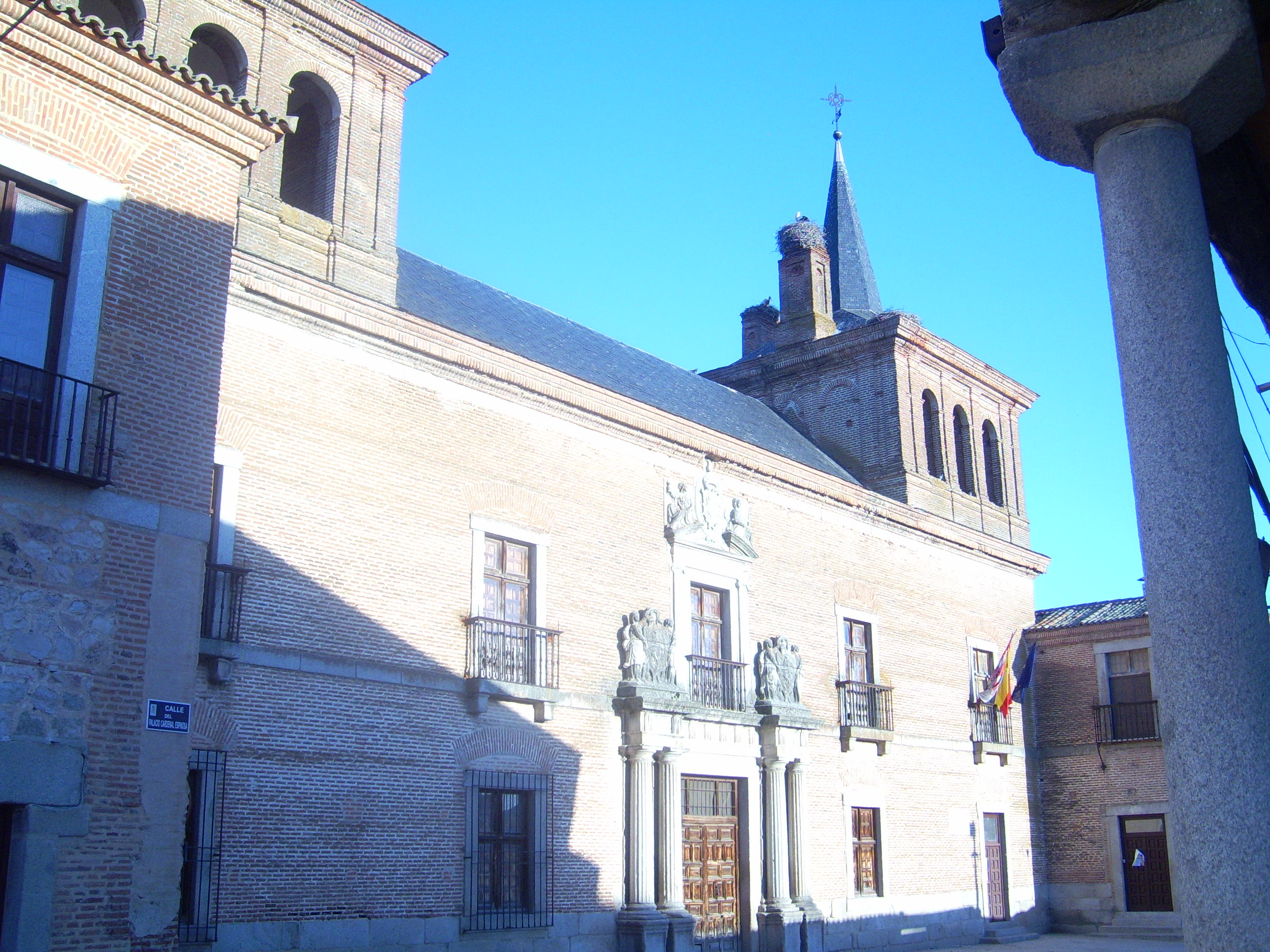 Cardenal Espinosa´s Palace (Martín Muñoz de las Posadas)